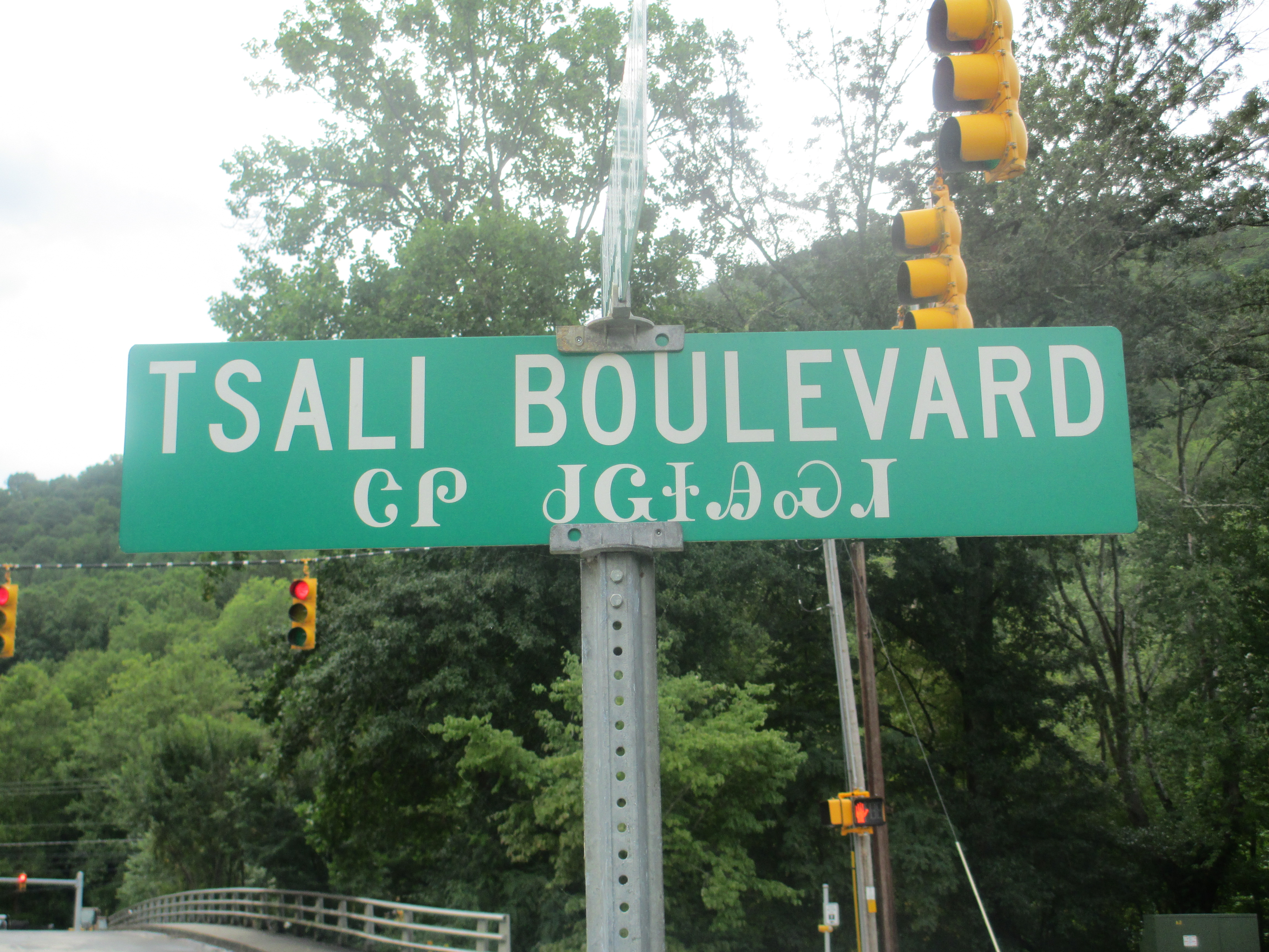 I took photo of Tsali Boulevard sign in Cherokee, NC, with Canon camera.